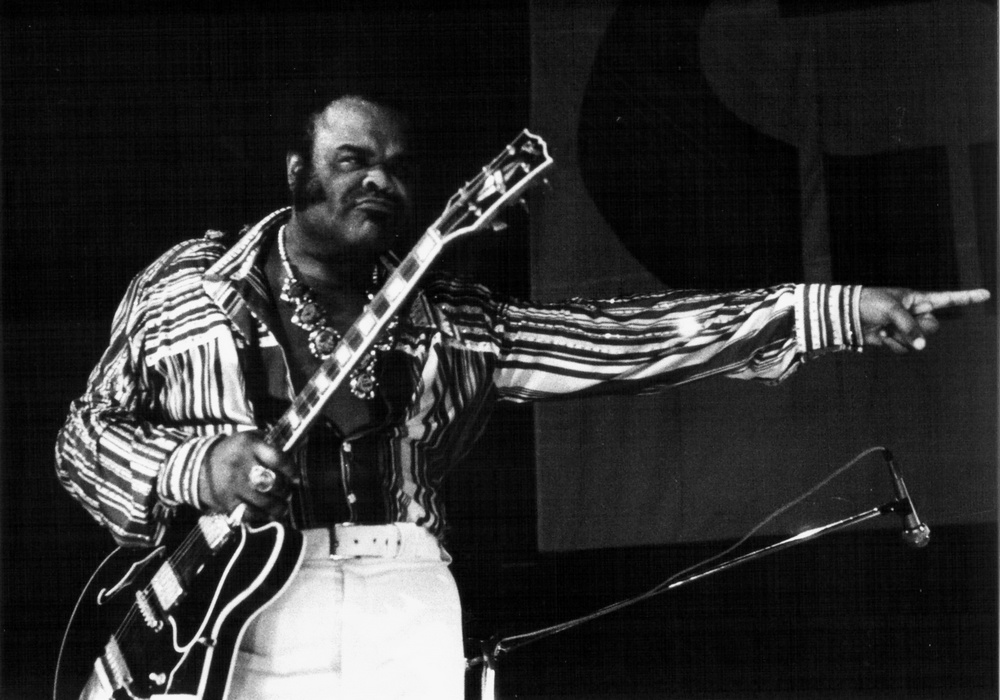 Blues guitarist Freddie King in Paris, France.